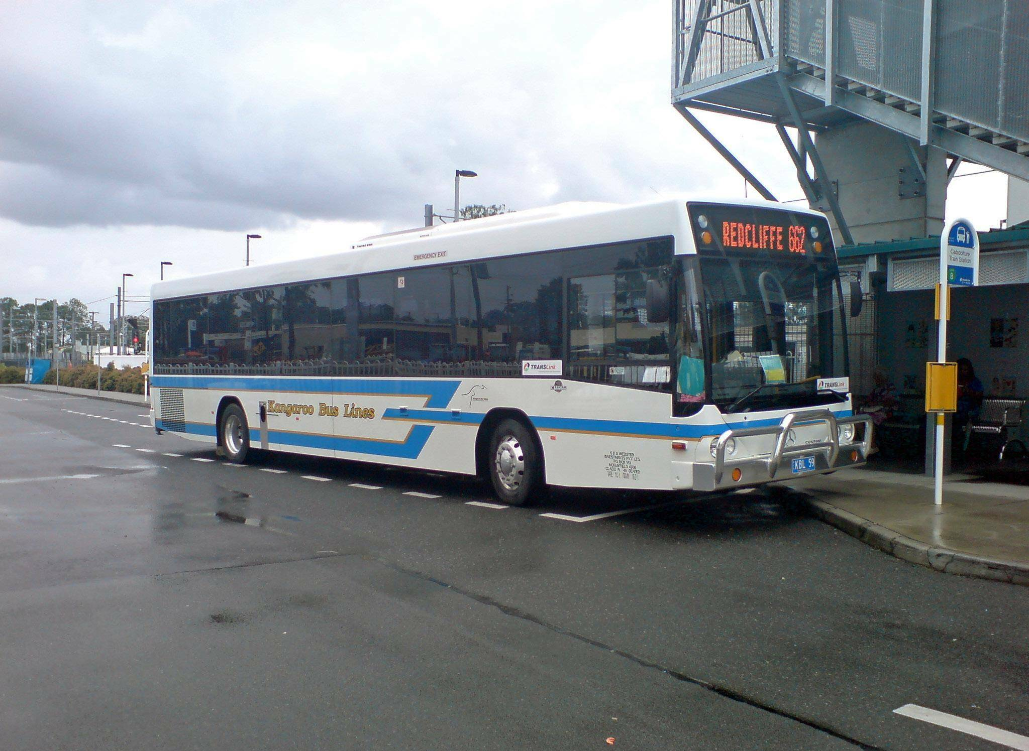 Kangaroo Bus Lines Custom Coaches CB60 bodied Mercedes-Benz OC500LE unit 59 (KBL 59) at Caboolture Station. SM247My Talk 23:01, 2 March 2007 (UTC)